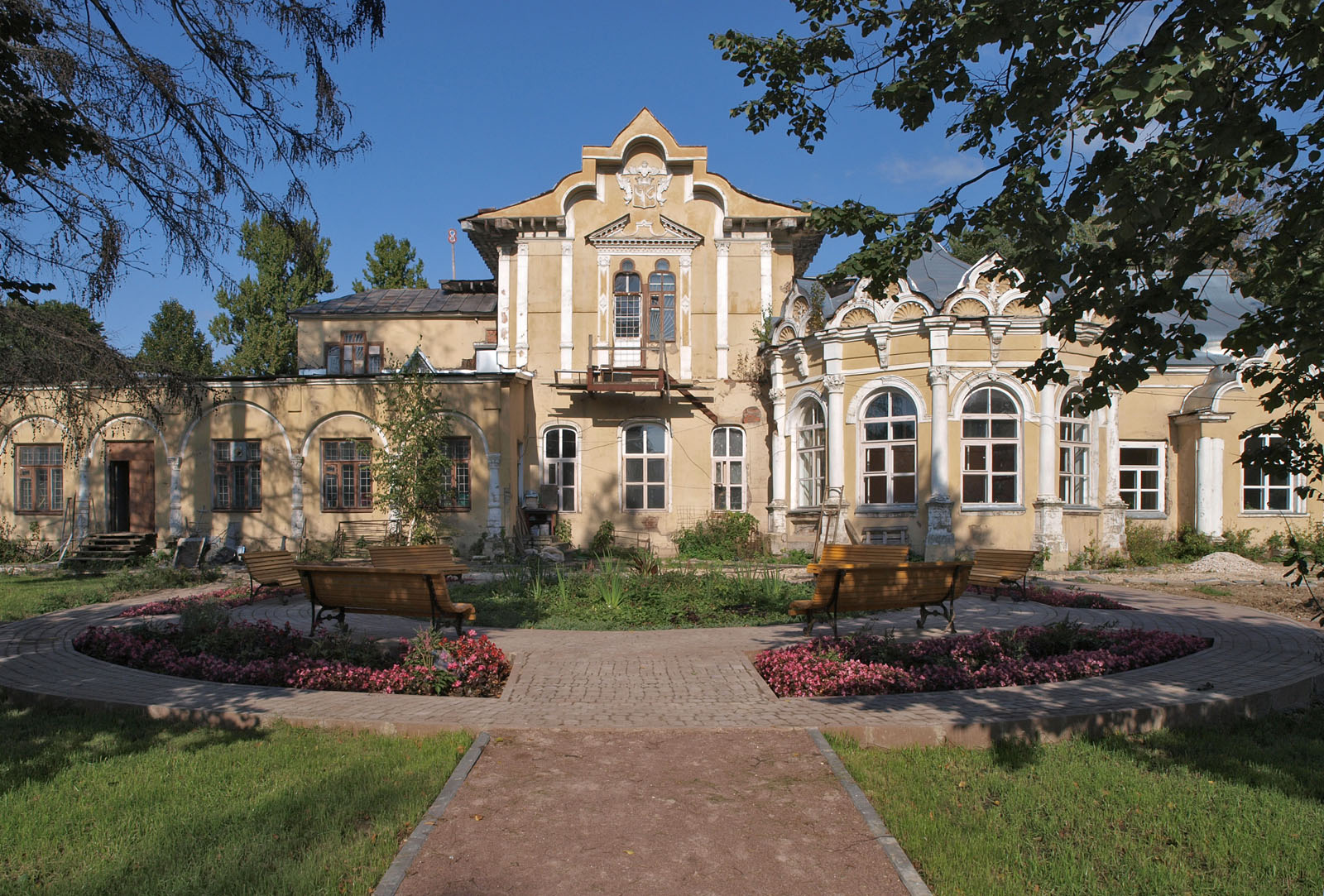 Main hall of Altufyevo estate